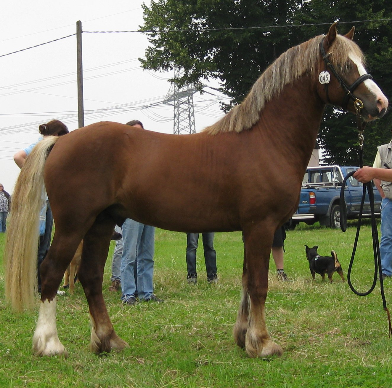 A three year old Welsh Pony of section D Self made picture at Regionalschau IG-Welsh Regionalgruppe Rheinland